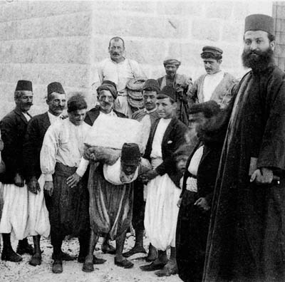 Post-card of a group of Maronite Christian villagers, 1920's, in one of the many small villages scattered over the peaks and slopes of the magnificent mountains of Lebanon. The priest and the gathered crowd are admiring the strength of the stone-cutter/porter, part of the team involved in building the church.